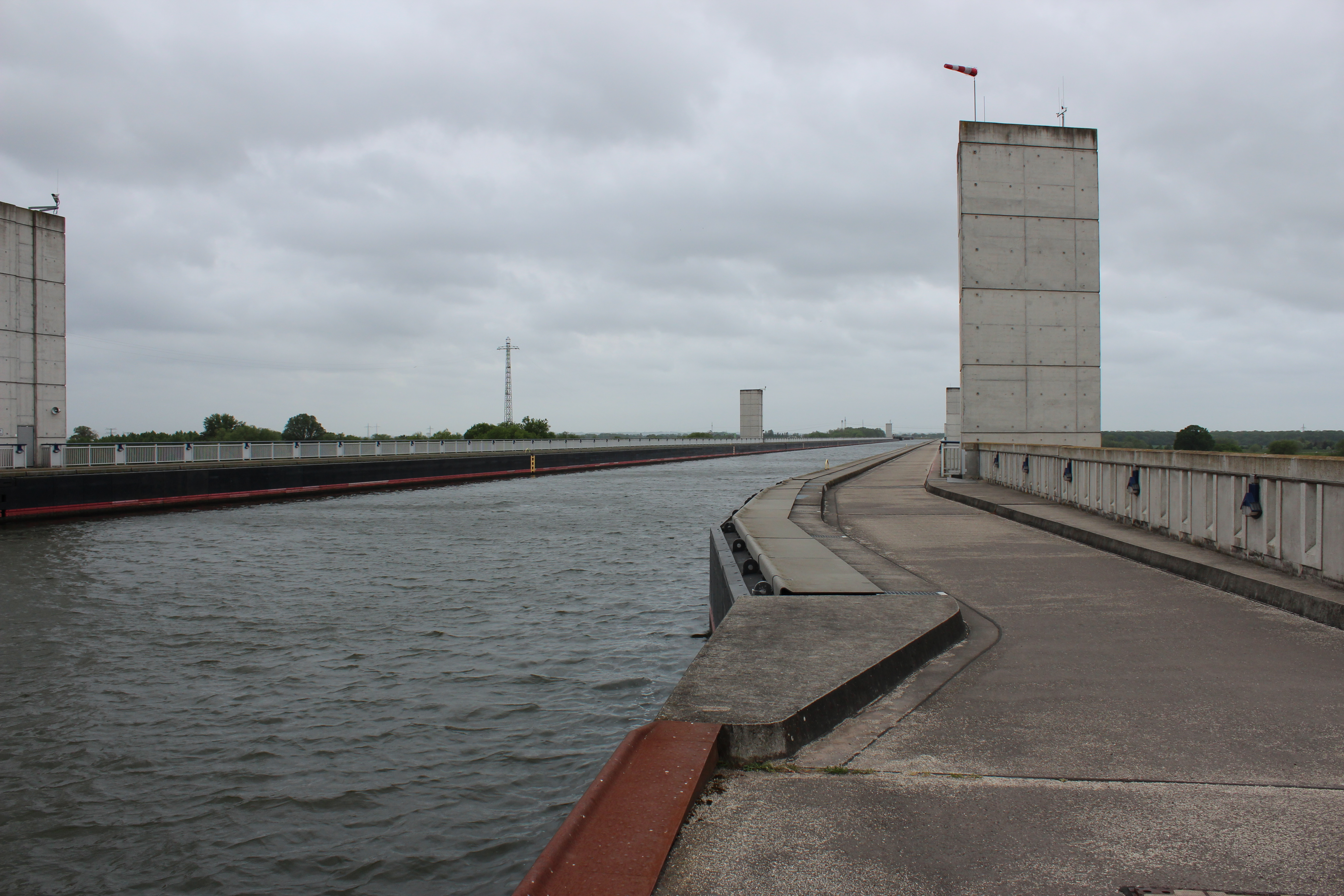 Waterways Cross Magdeburg: Canal bridge for the Mittellandkanal over the Elbe